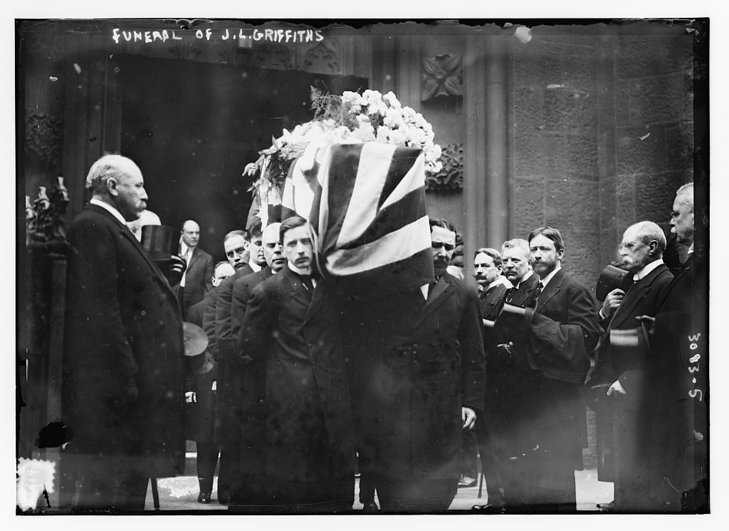 Funeral of J. L. Griffiths circa May 31, 1914 Bain News Service,, publisher. Funeral of J.L. Griffiths [between ca. 1910 and ca. 1915] 1 negative : glass ; 5 x 7 in. or smaller. Notes: Title from unverified data provided by the Bain News Service on the negatives or caption cards. Forms part of: George Grantham Bain Collection (Library of Congress). Format: Glass negatives. Repository: Library of Congress, Prints and Photographs Division, Washington, D.C. 20540 USA, General information about the Bain Collection is available at Persistent URL: Call Number: LC-B2- 3083-5